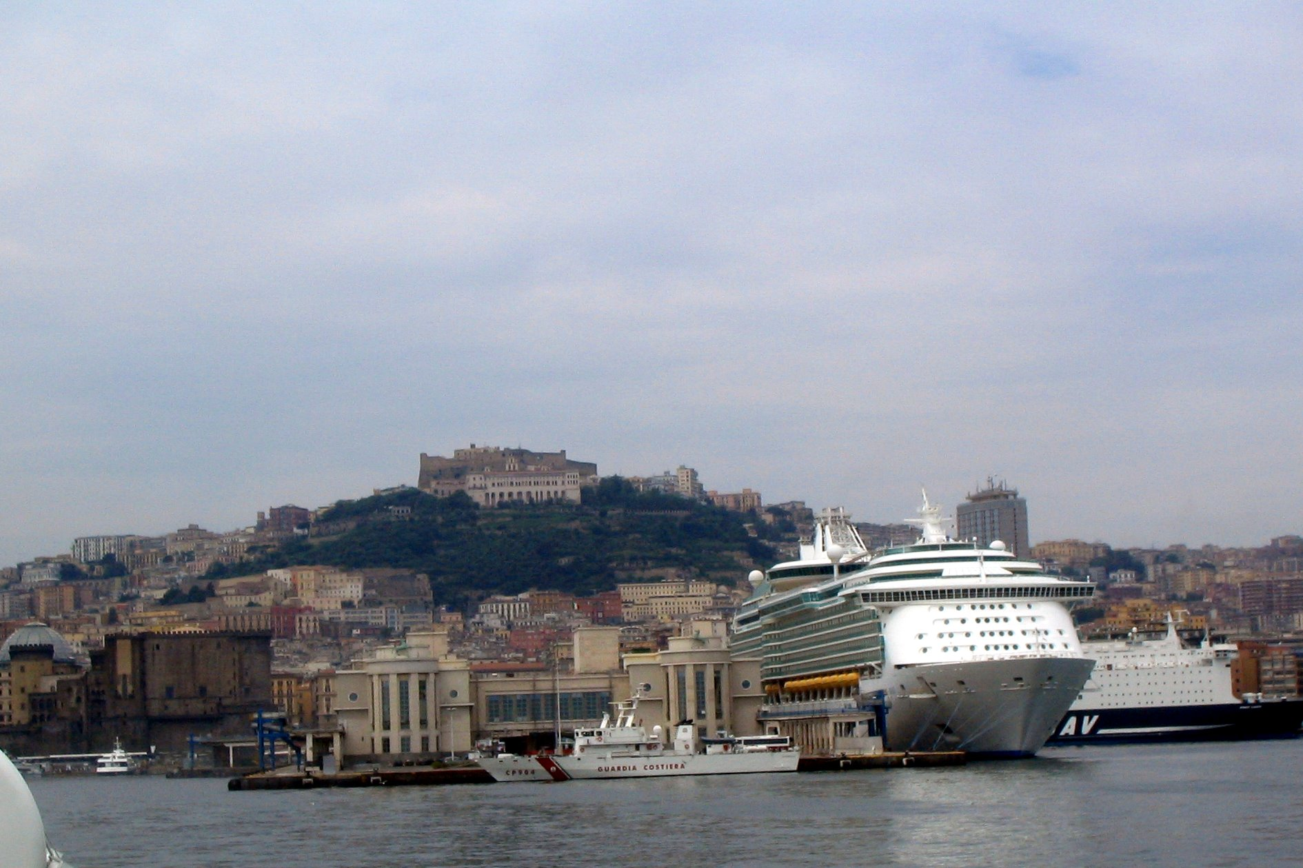 Heading into the marina in Naples. Cruise ships docked to the right, Castel Nuovo on the shore on the left, Castel Sant'Elmo on the hilltop.